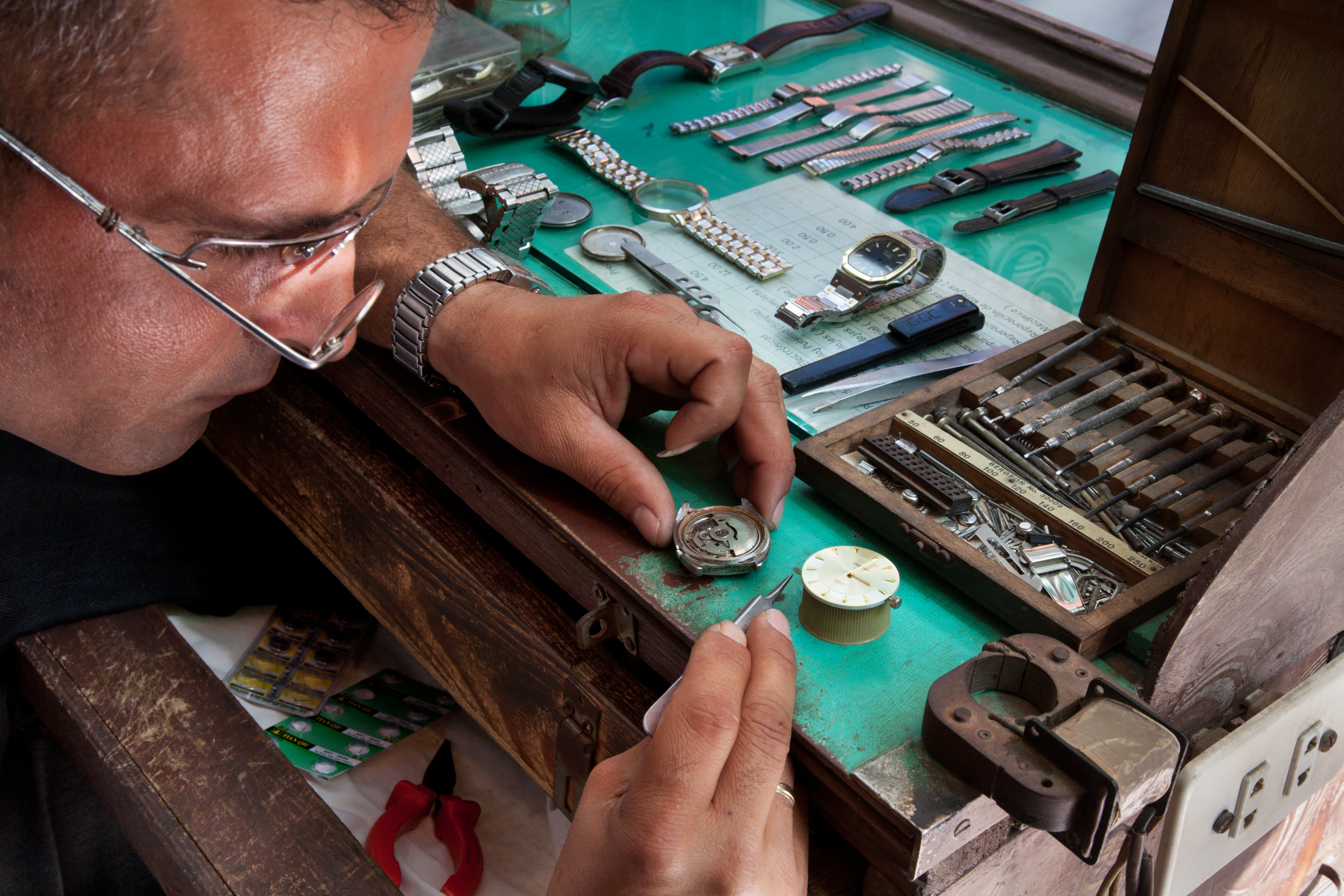 Gumersindo Galban Cruz, clockpiece repairman. Havana (La Habana), Cuba